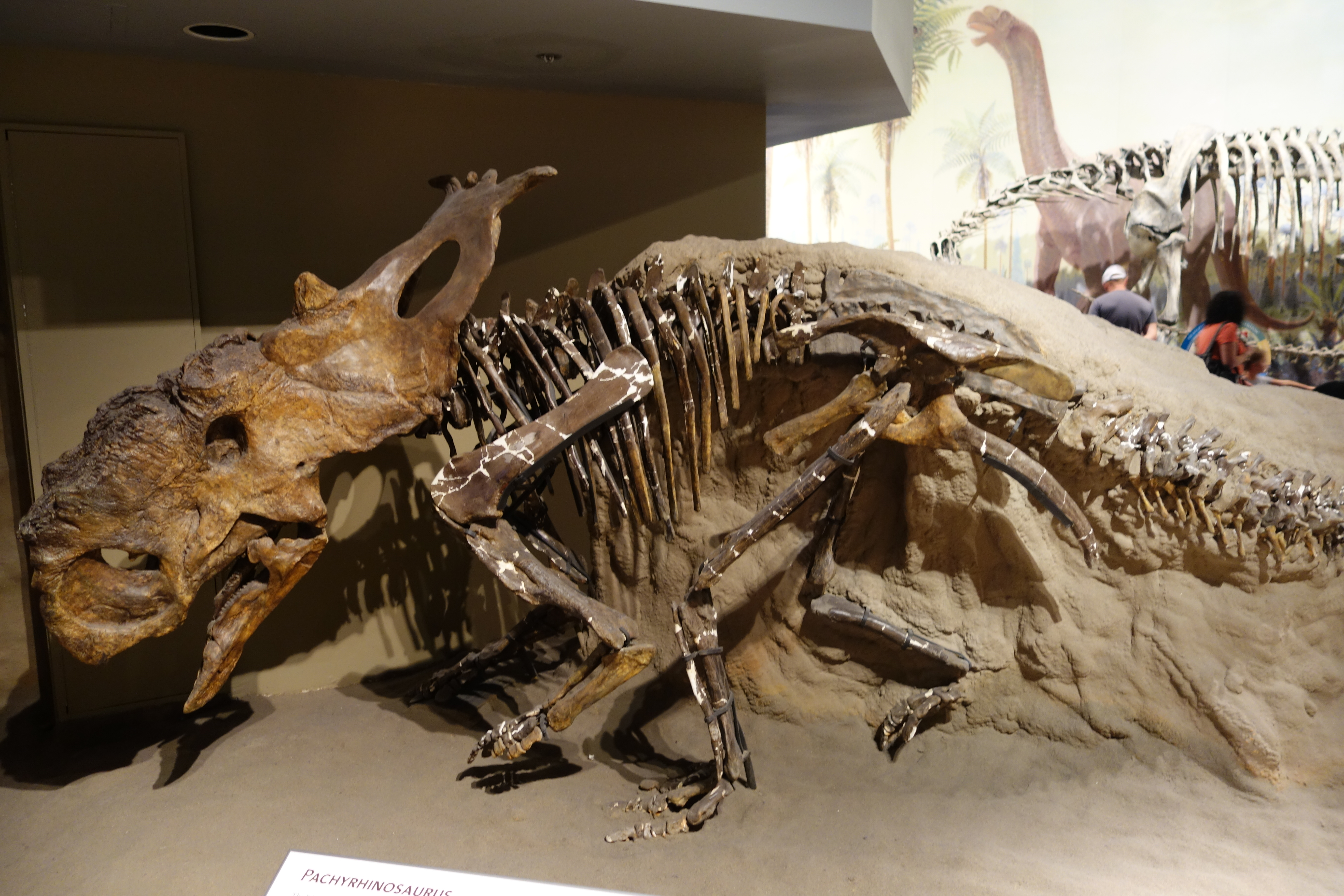 Pachyrhinosaurus skeletal mount. On display at the Royal Tyrrell Museum, Alberta.